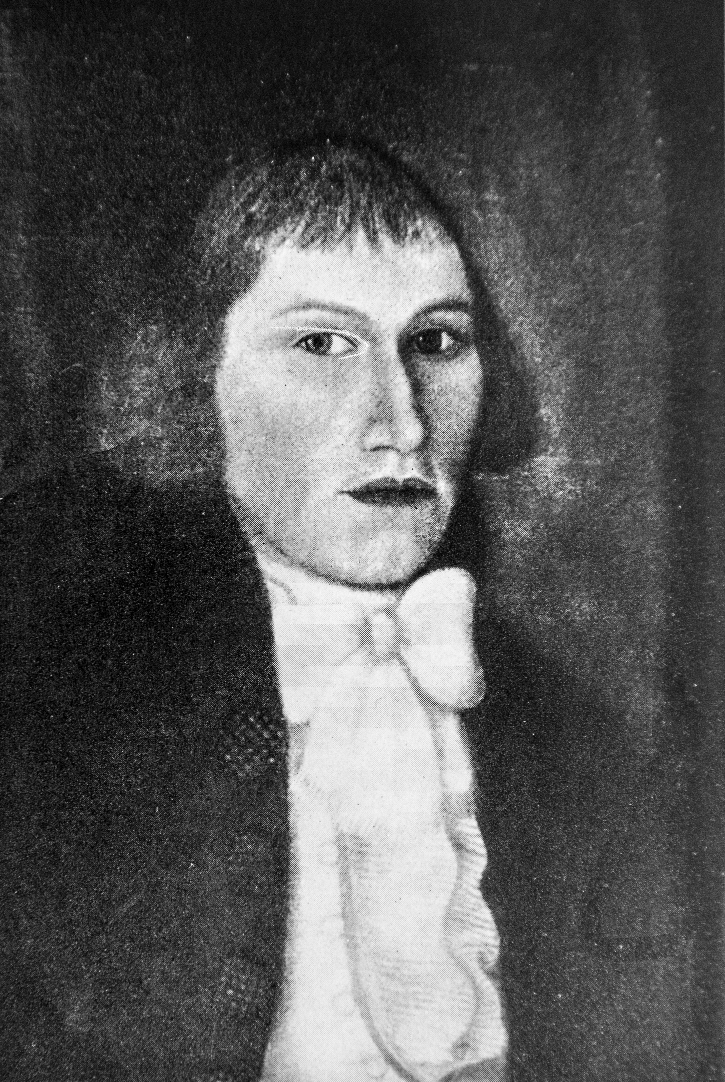 Portrait of Senator James Burrill, Jr. of Rhode Island